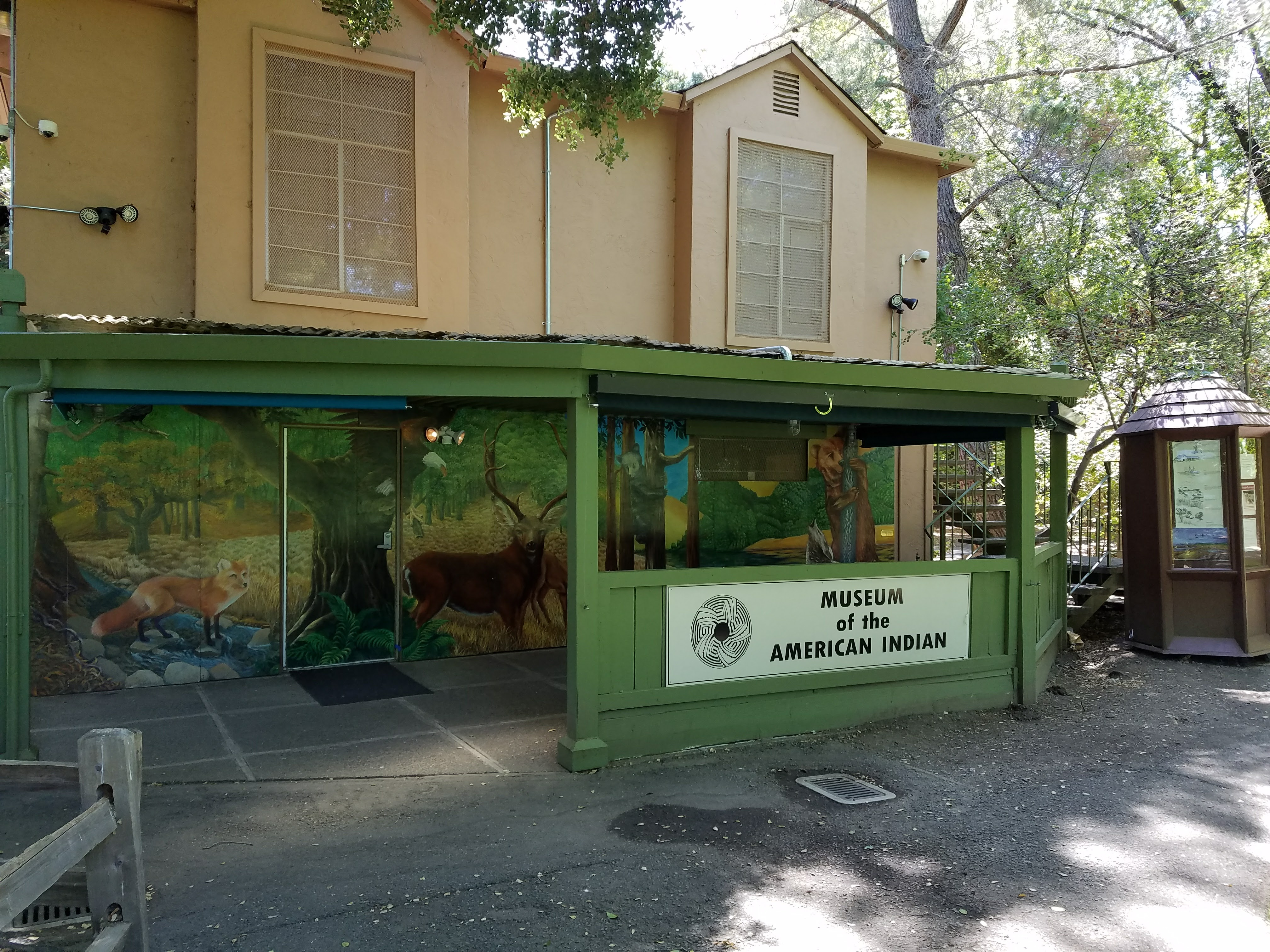 Front of the Museum of the American Indian